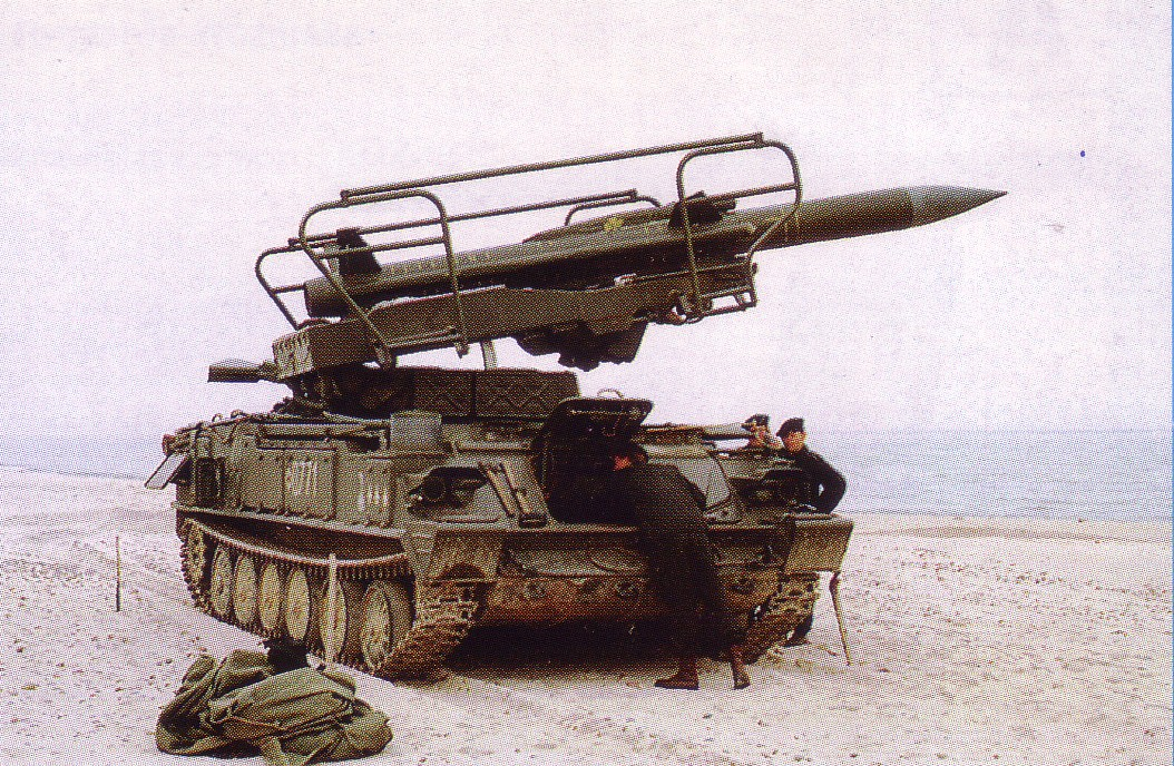 SA-6